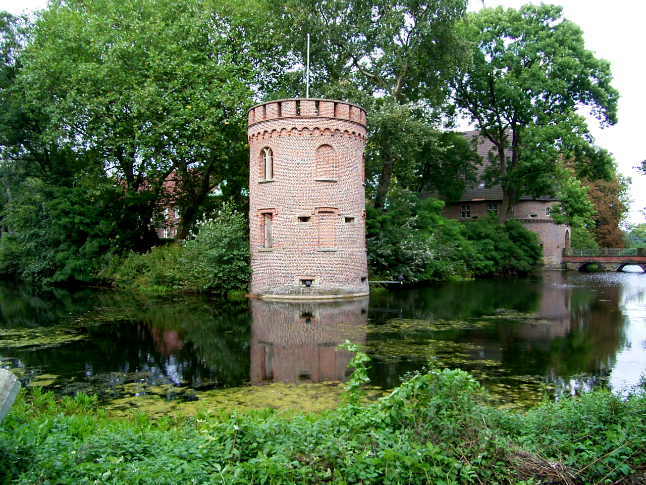 Schloss Bladenhorst in Castrop-Rauxel, southern aspect